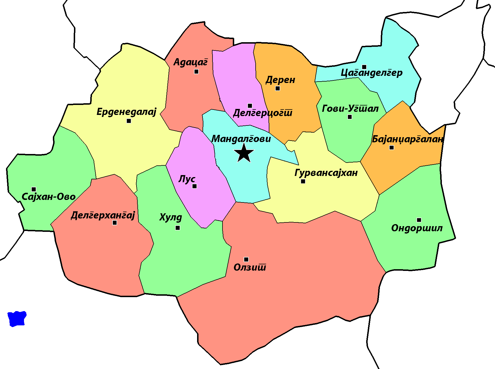 Translated map of Dundgovi Sum into Macedonian language